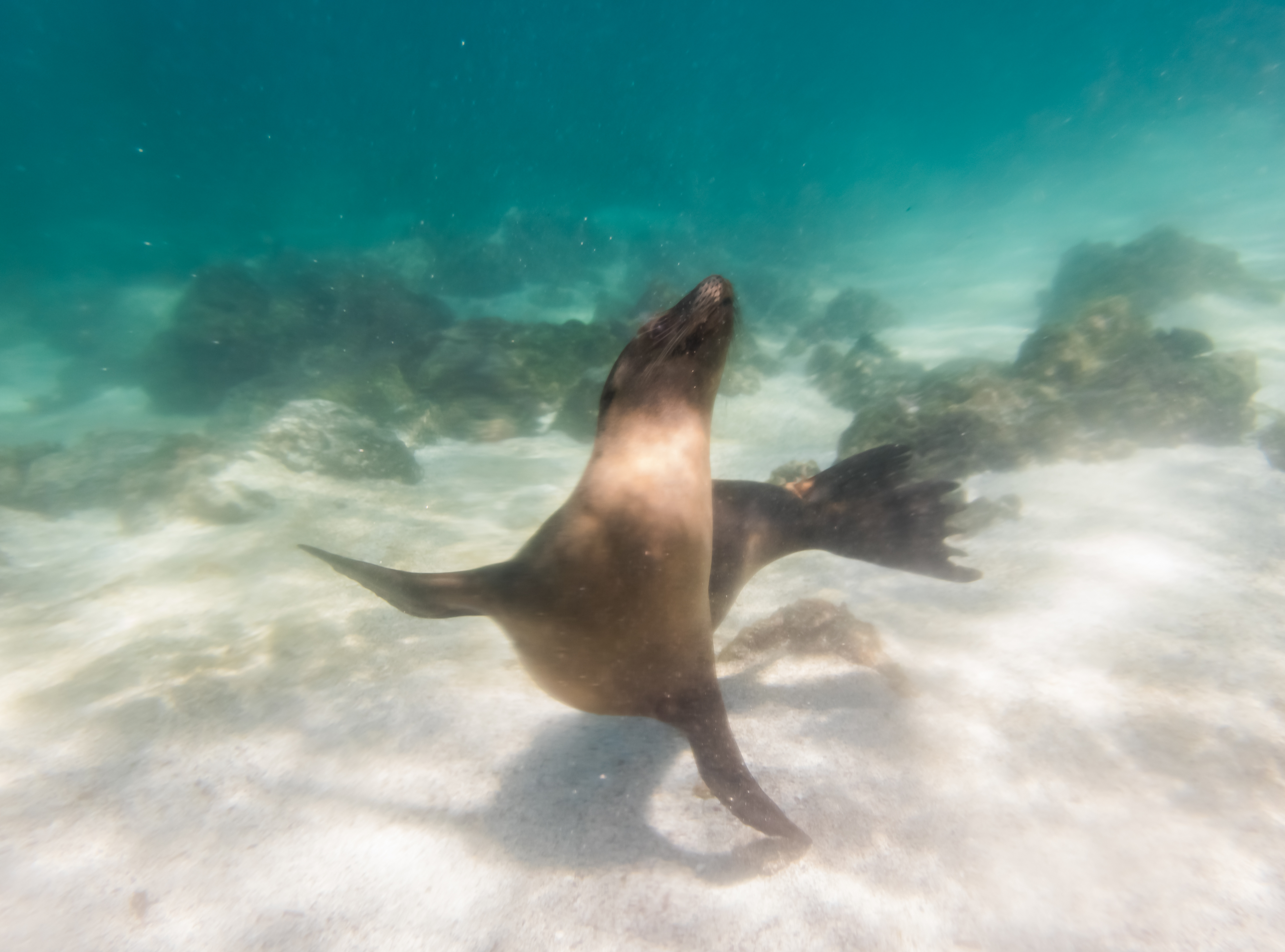 Sea lion (Zalophus californianus wollebaeki), San Cristobal island, Galapagos islands, Ecuador